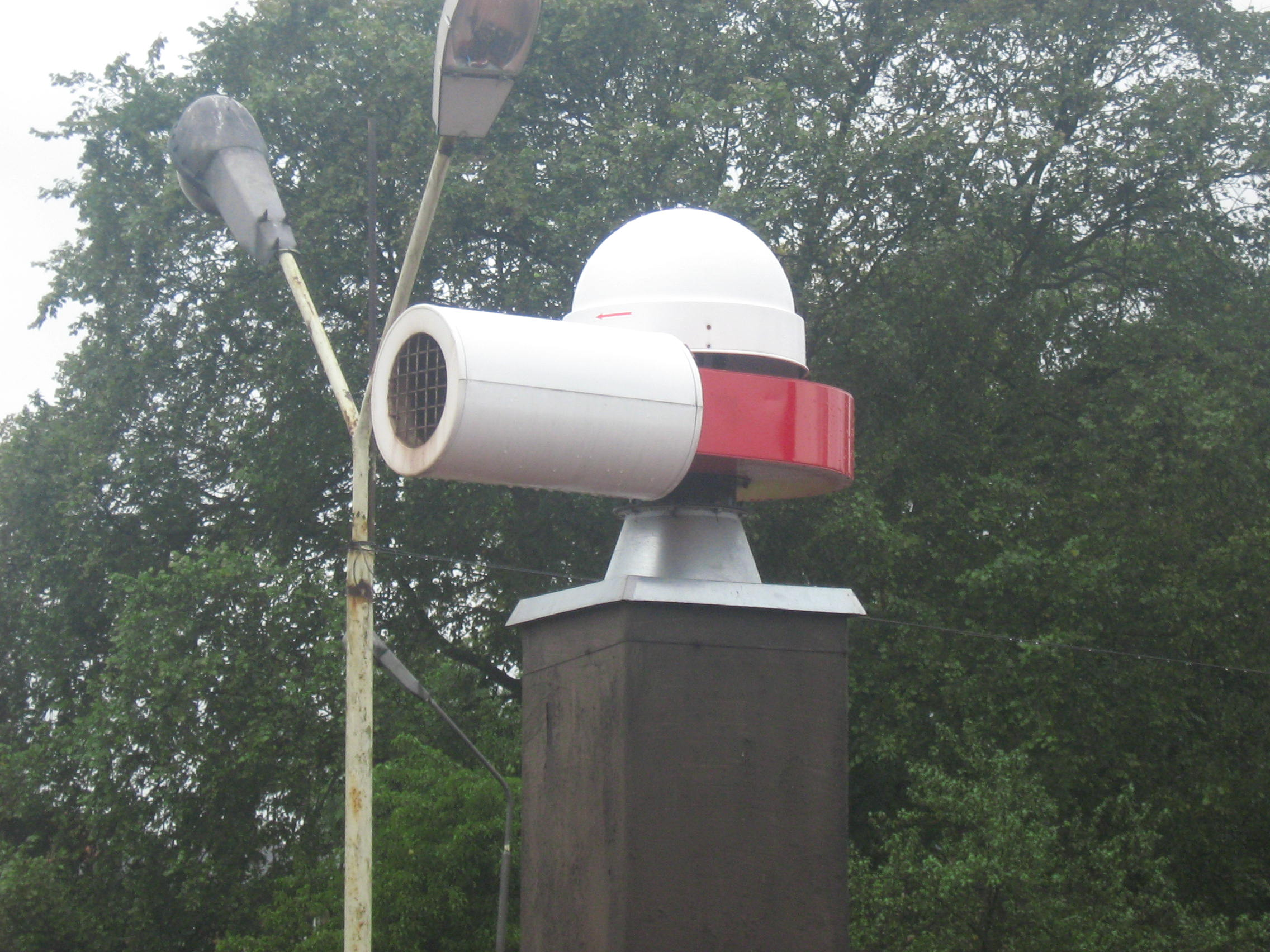 Centrifugal fan on top of a chimney